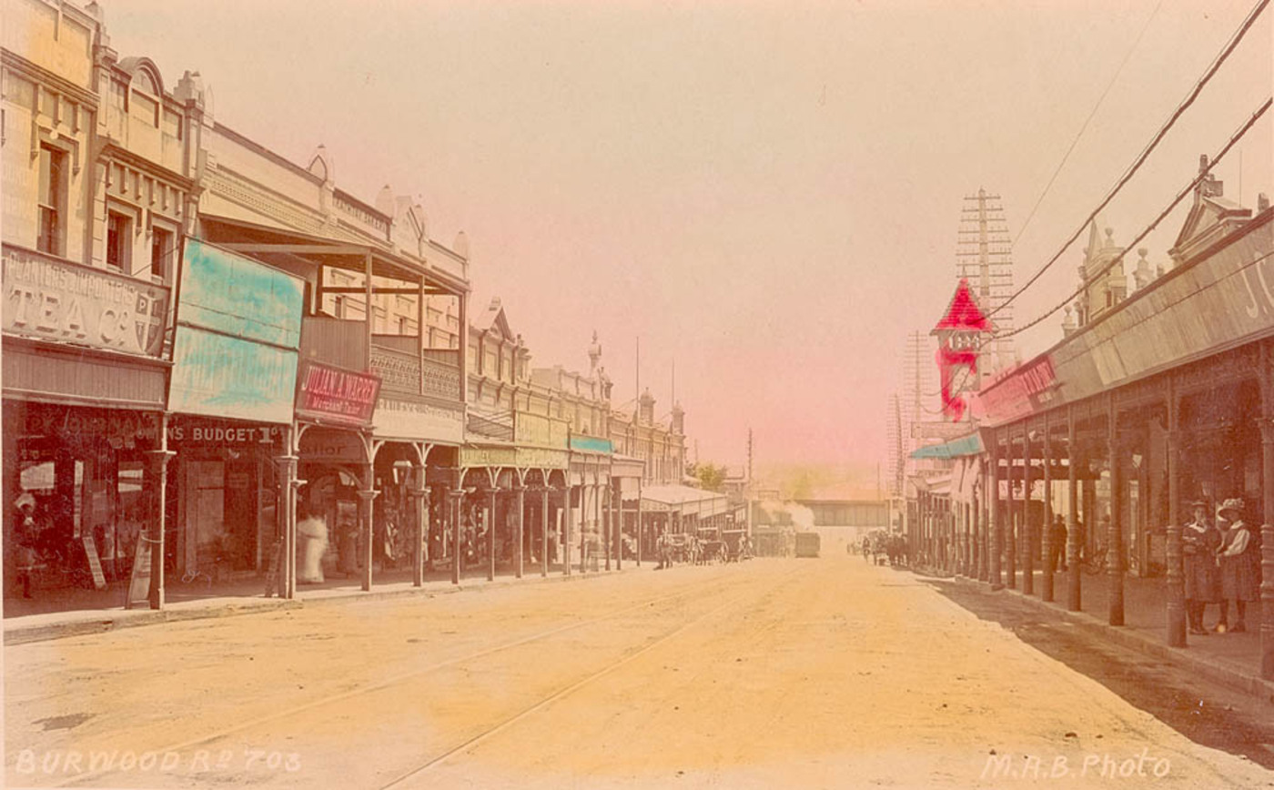 Burwood Rd